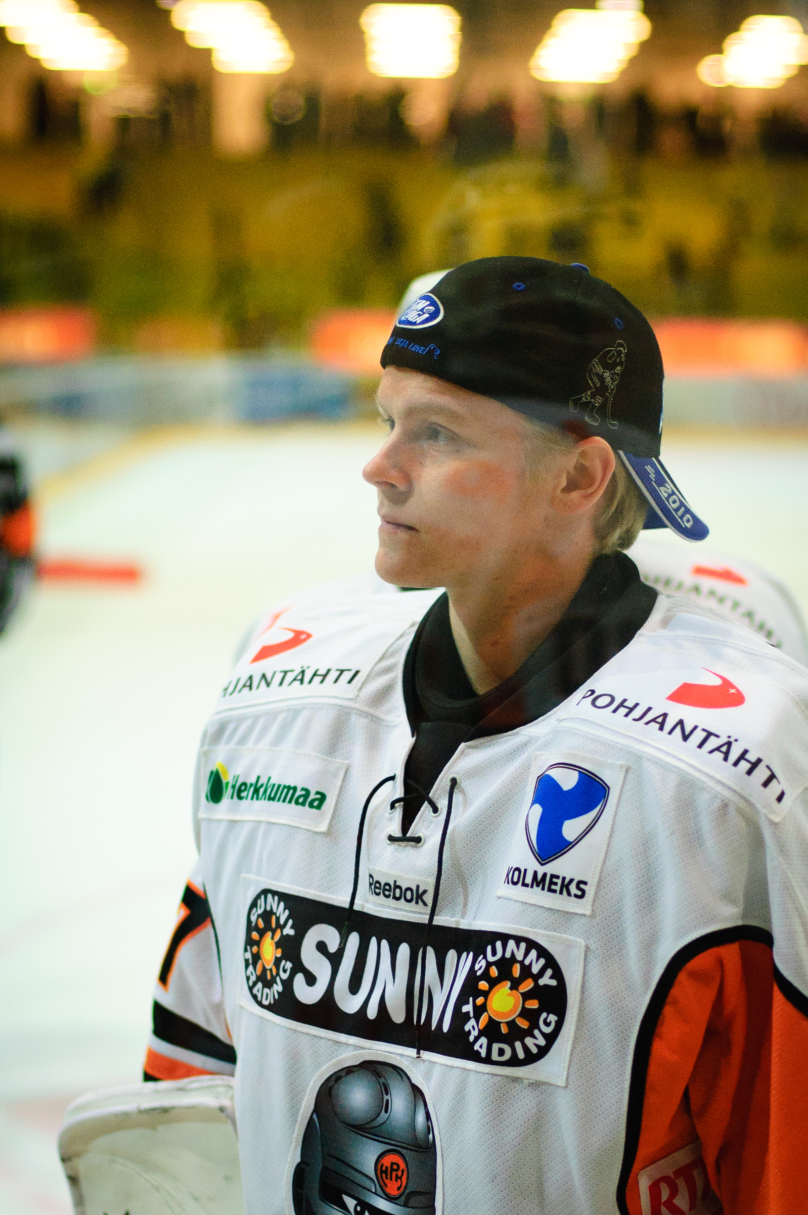 Finnish ice hockey goaltender Juha Metsola of HPK Hämeenlinna in a game against SaiPa Lappeenranta in the Finnish SM-liiga.